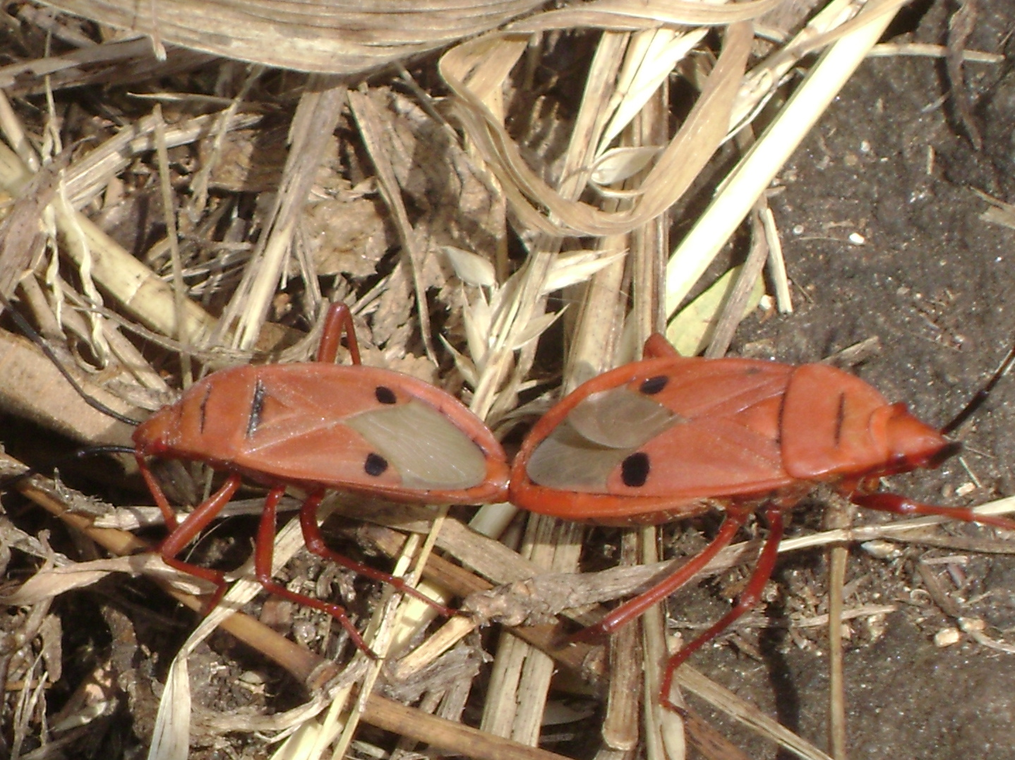 unidentified red Beetles near 1700 meters altitude at Manjampatti Valley Some sort of Hemiptera. Dysmorodrepanis (talk) 16:40, 27 August 2011 (UTC)